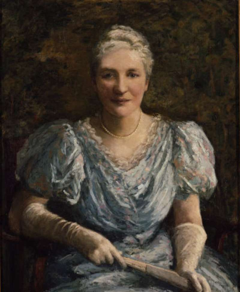 Constance Sladen painted in 1901 by Henry Tanworth Wells and claimed as copyright by Exeter City Council